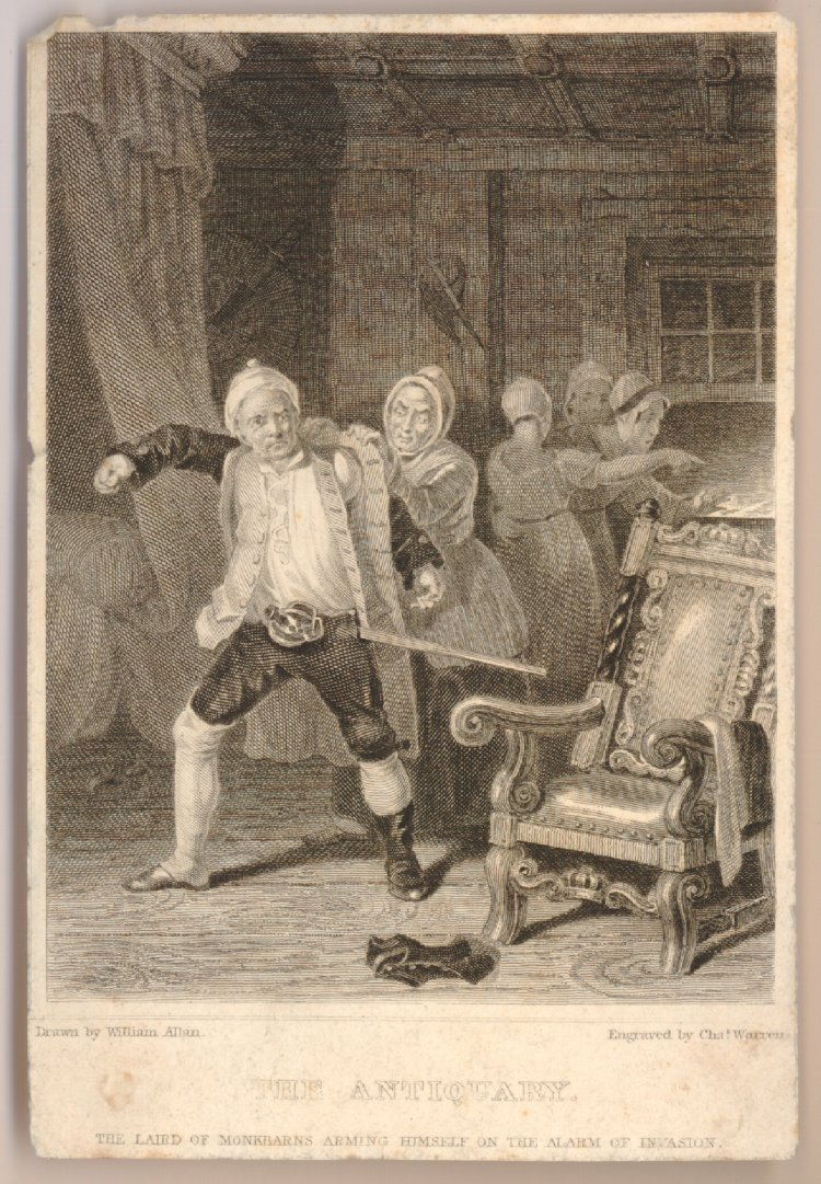 "The Laird of Monkbarns Arming Himself on the Alarm of Invasion", an engraving by Charles Warren (1762-1823) from a design by William Allan (1782-1850). The engraving, which is dated 1820, illustrates a scene from Sir Walter Scott's novel The Antiquary (1816).